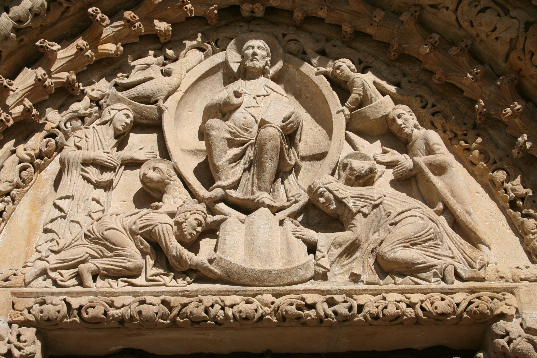 Tympanon of portal, church at Cistercians's monastery Porta Coeli, Předklášteří, the Czech Republic